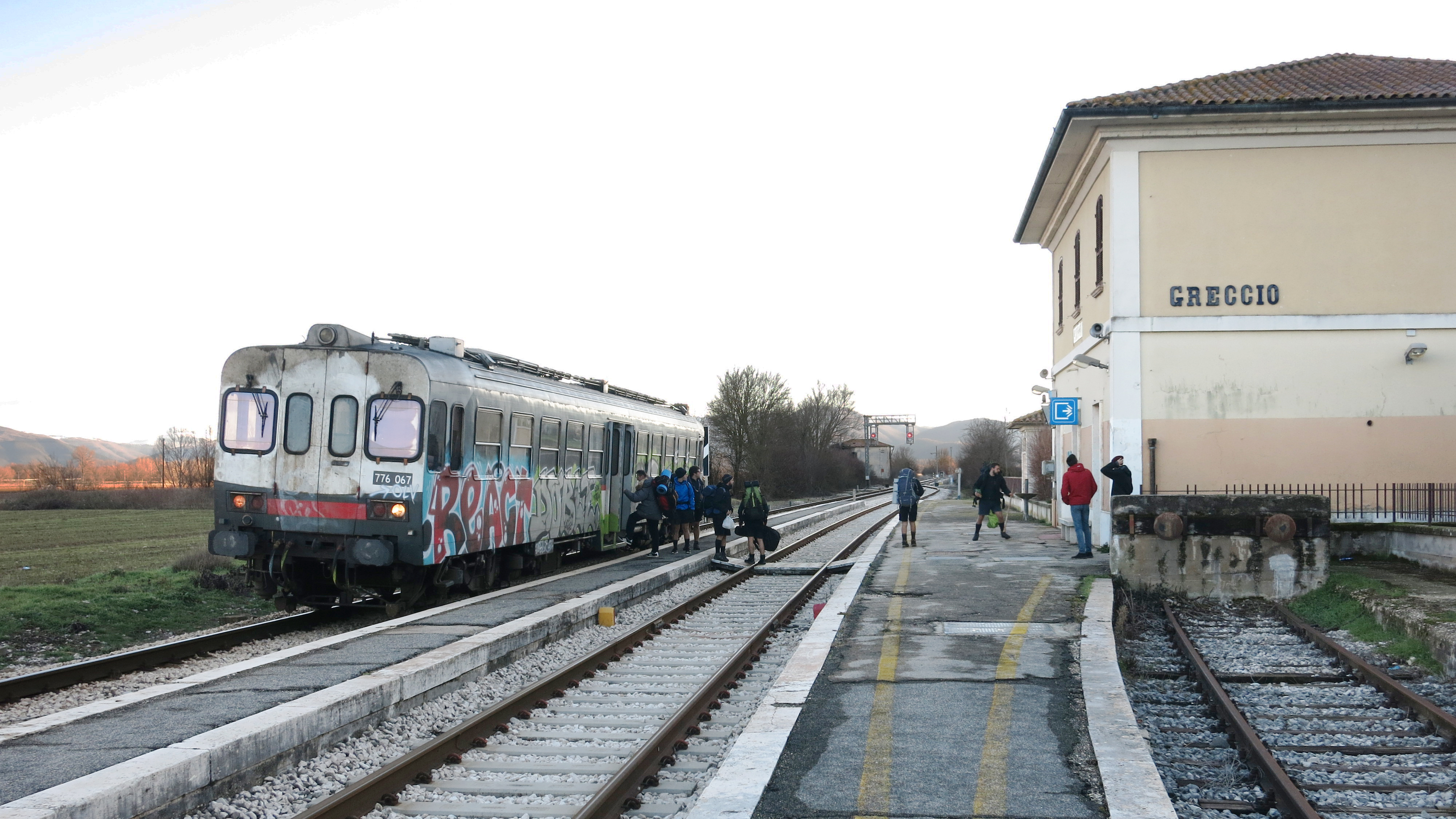 DMU class ALn 776 number 067 owned by Umbria Mobilità stopping in the Greccio train station (province of Rieti, Lazio, Italy), on the Terni-Rieti-L'Aquila-Sulmona line.